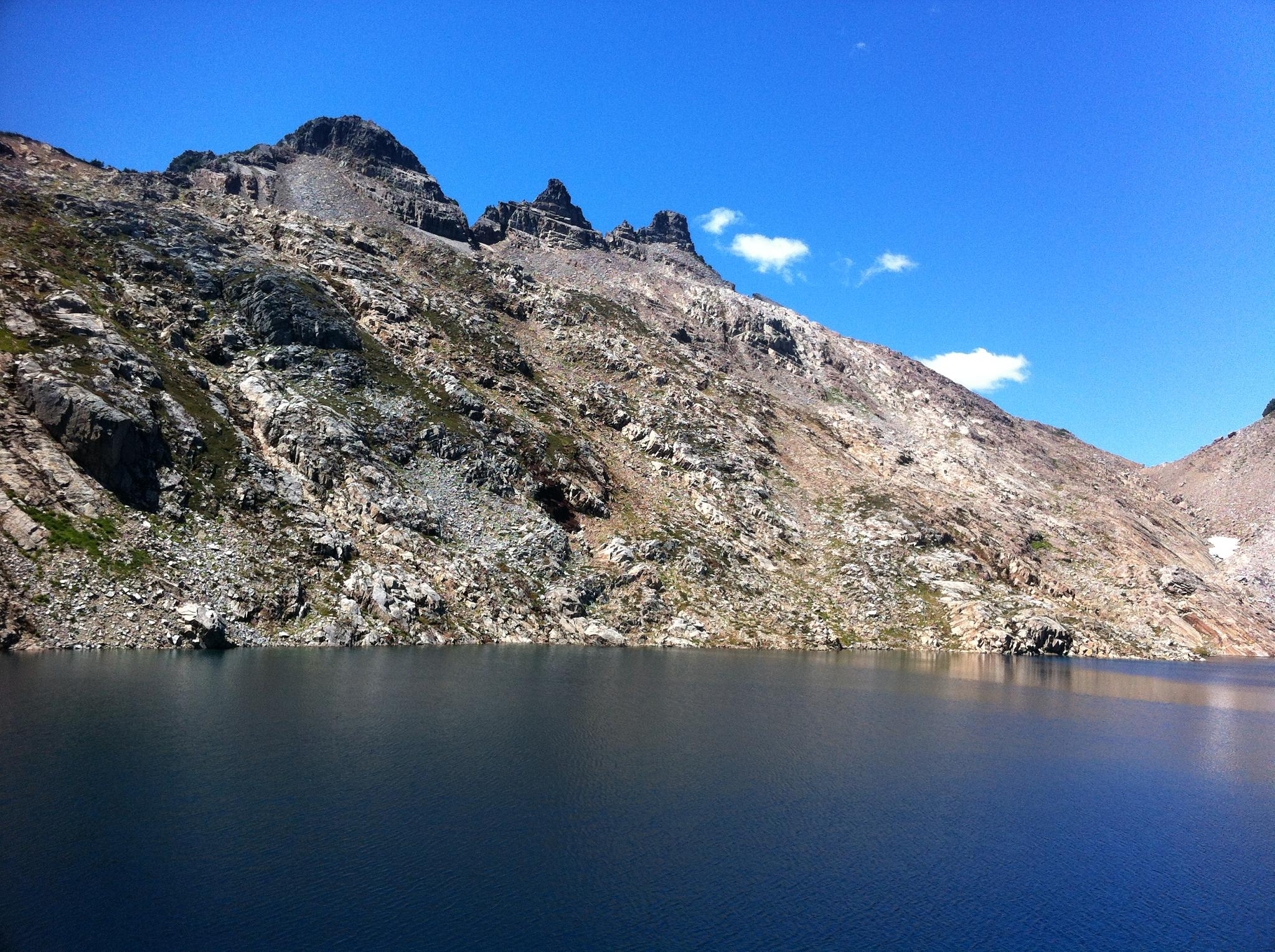 Photo of Foggy Lake taken during hike in and around Gothic Basin.